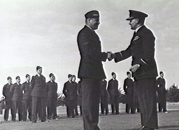 Victoria. Air Commodore R. J. Brownell, MC MM, Air Officer Commanding No. 1 Training Group, congratulating a RAAF trainee after presenting him with his "wings".